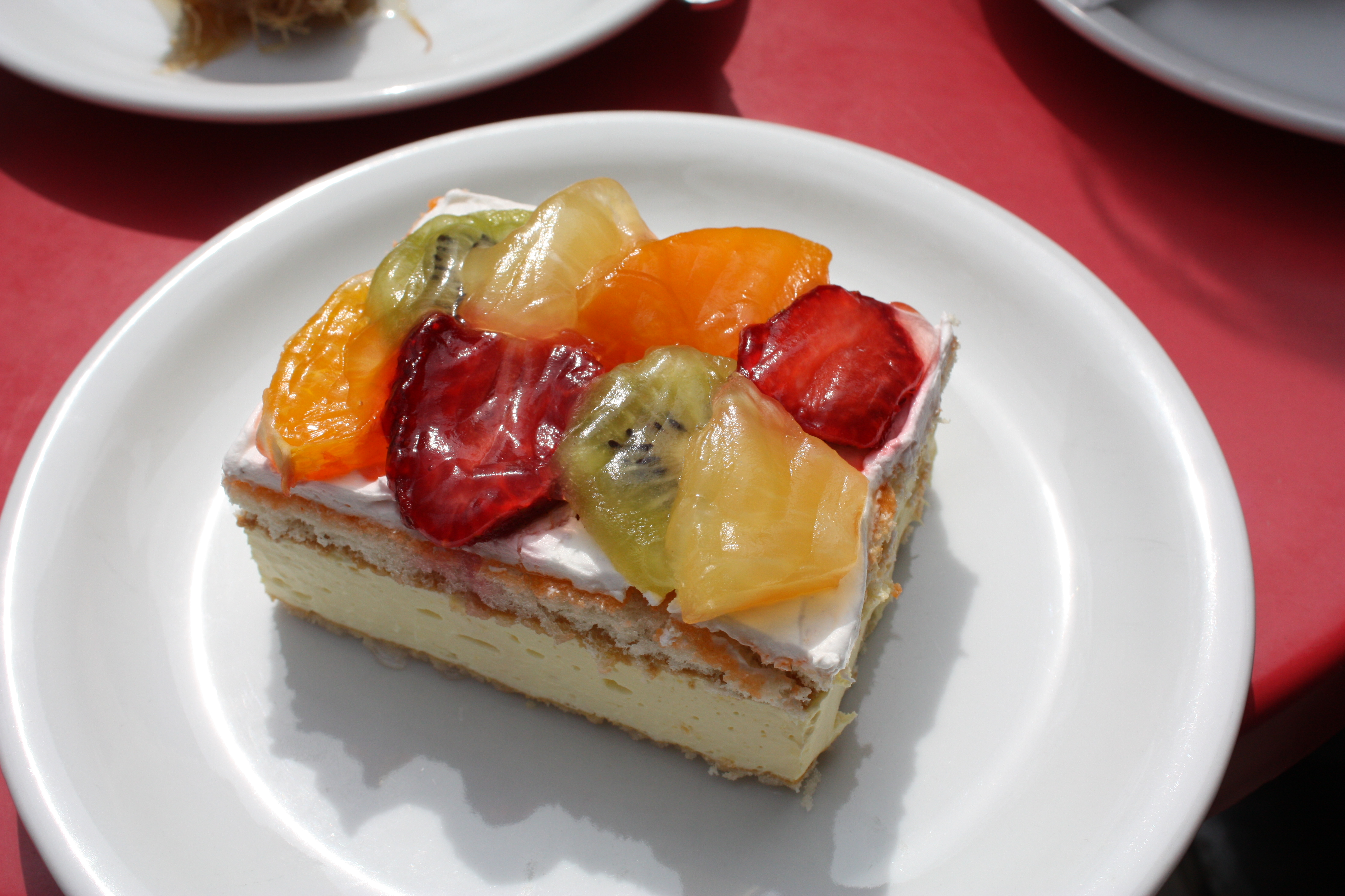 Cakes of Bulgaria, Sofia